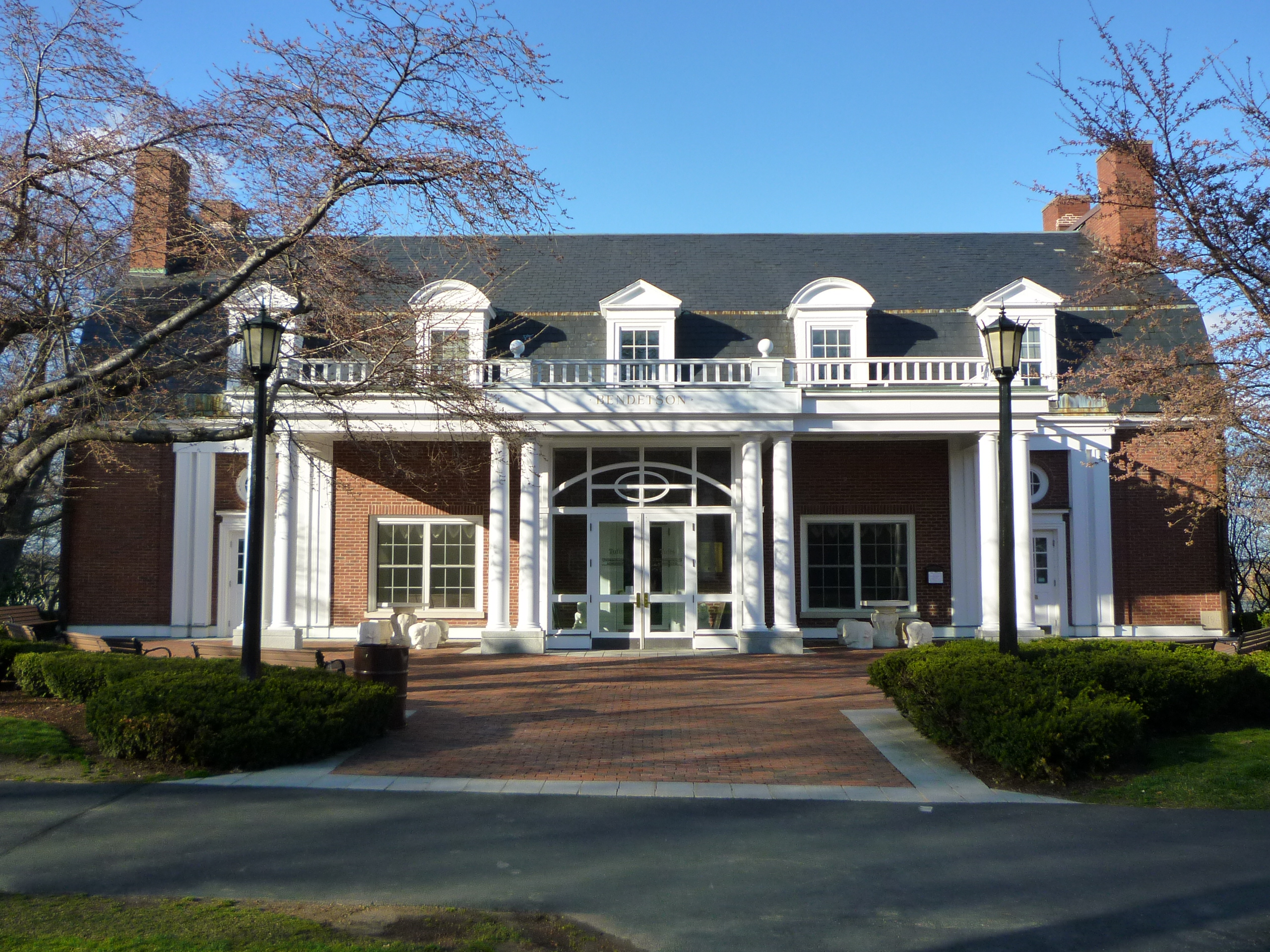 Bendetson Hall is the office of undergraduate admissions at Tufts University.